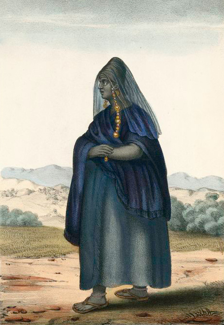 Sarakhole woman